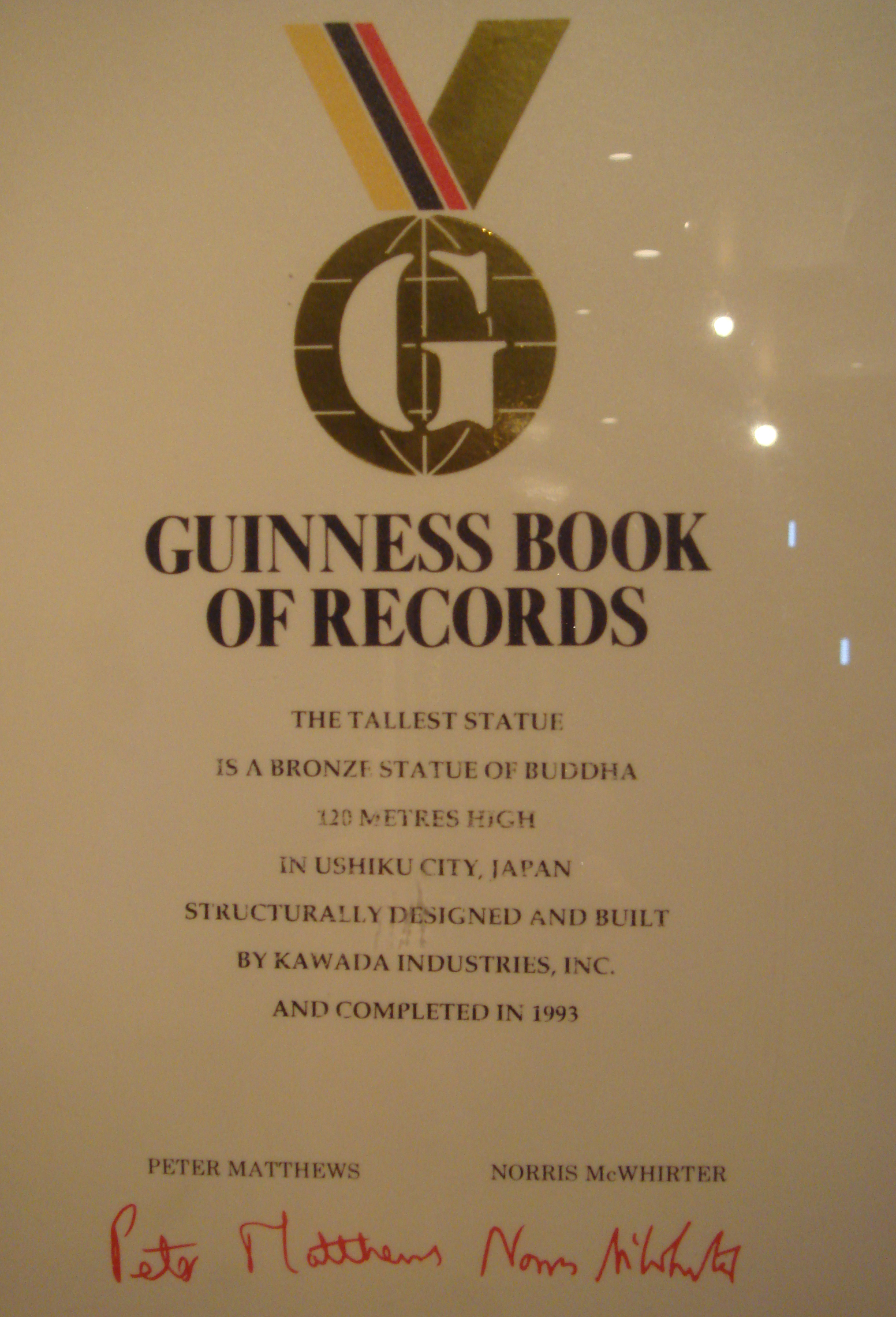 This is the Guinness Book that proves that Ushiku Daibutsu is the tallest statue in the world.